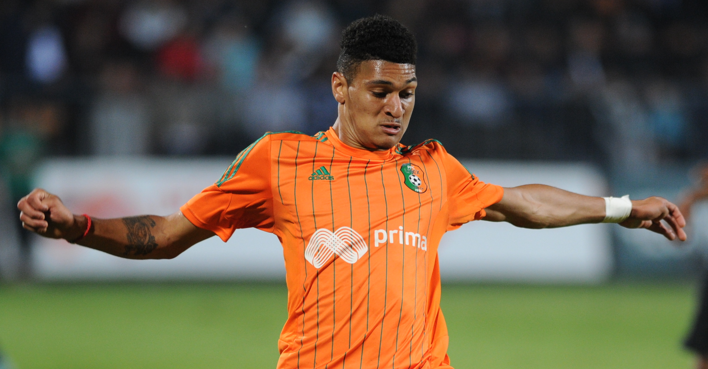 Bjørn Johnsen